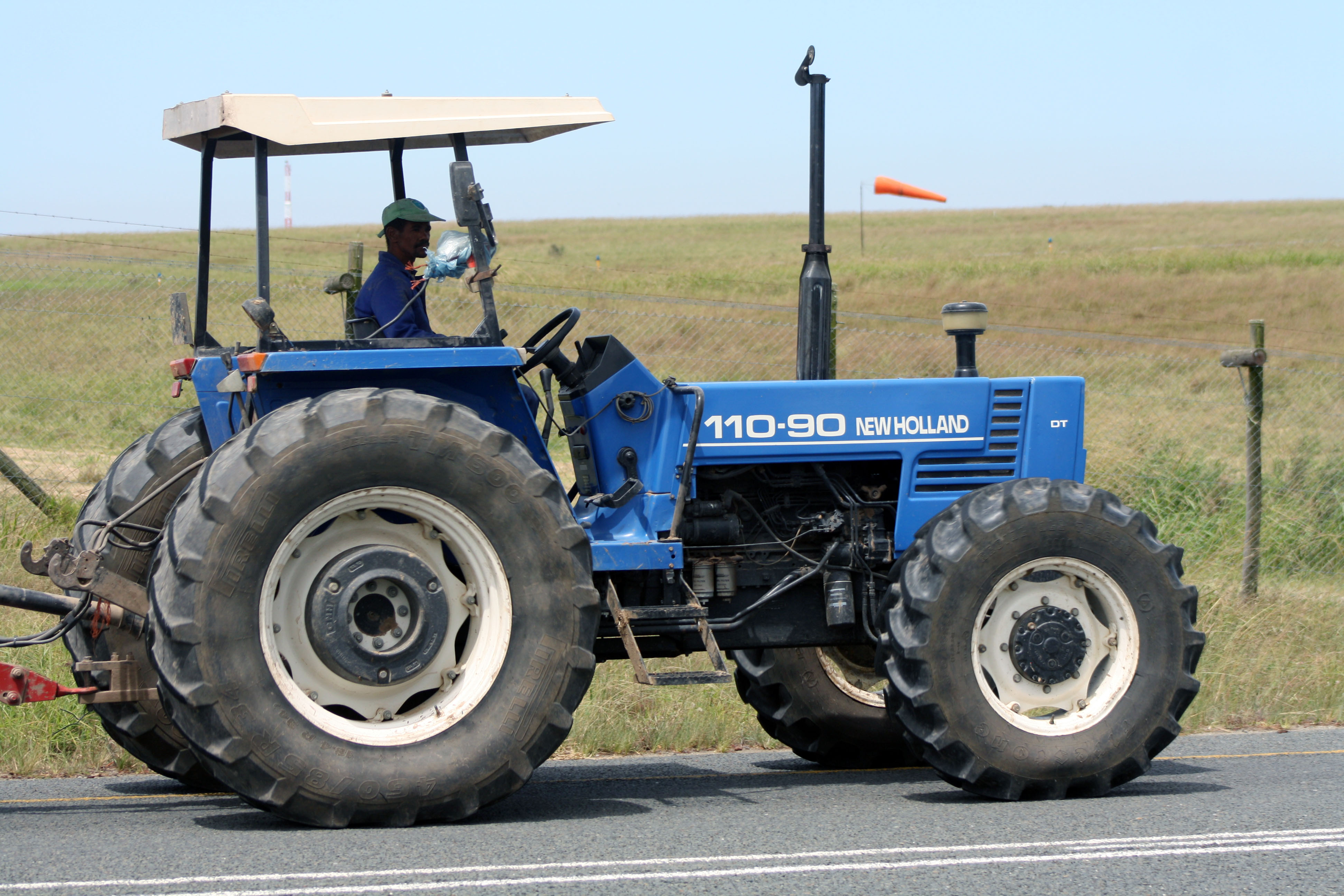 New Holland 110-90